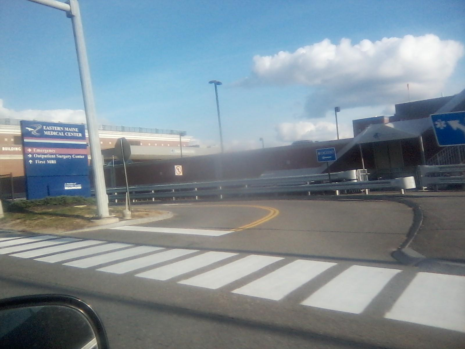 Side entrance to EMMC